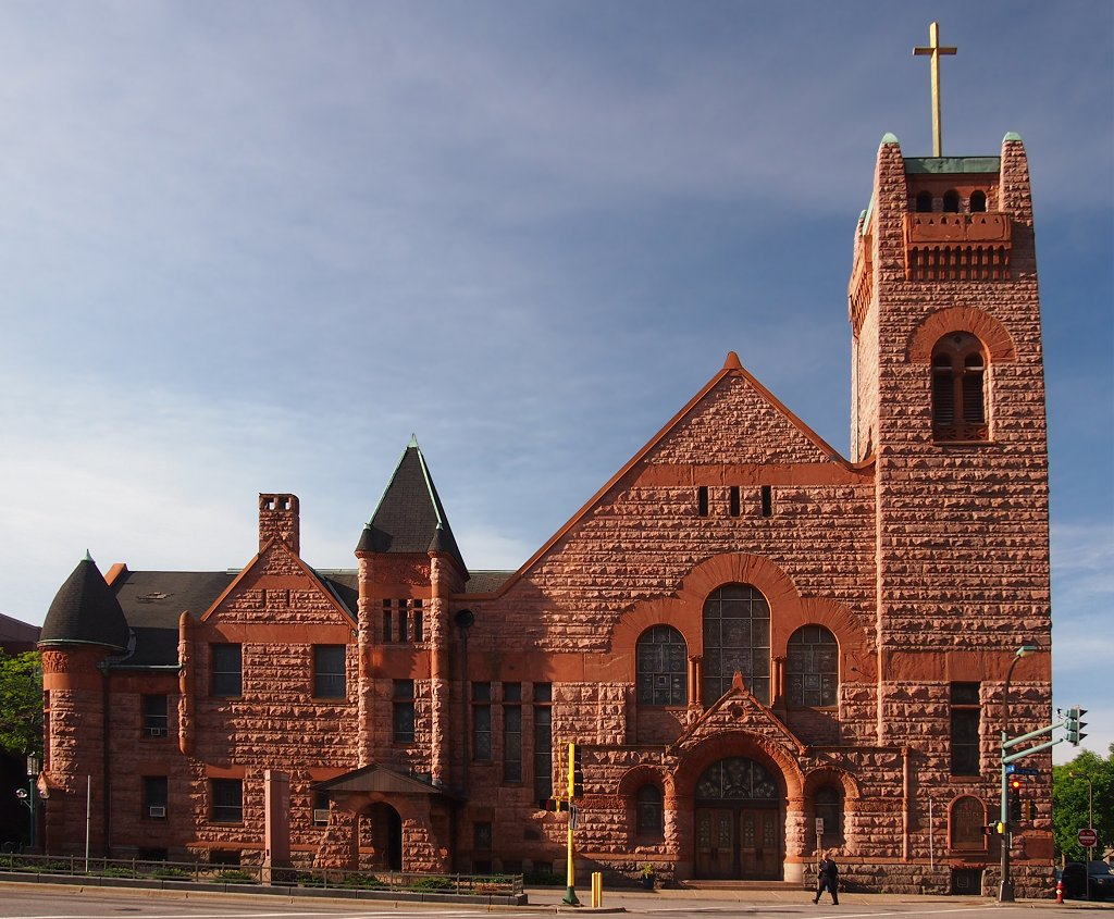 Wesley Methodist Episcopal Church, 101 E Grant St, Minneapolis, Minnesota, USA. Viewed from the north early on a summer morning for light on the north façade. Corrected for tilt distortion.